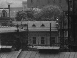 building in Beuthen, 31 Klukowitzer Street (now 31 Wojciecha Korfantego Street in Bytom)